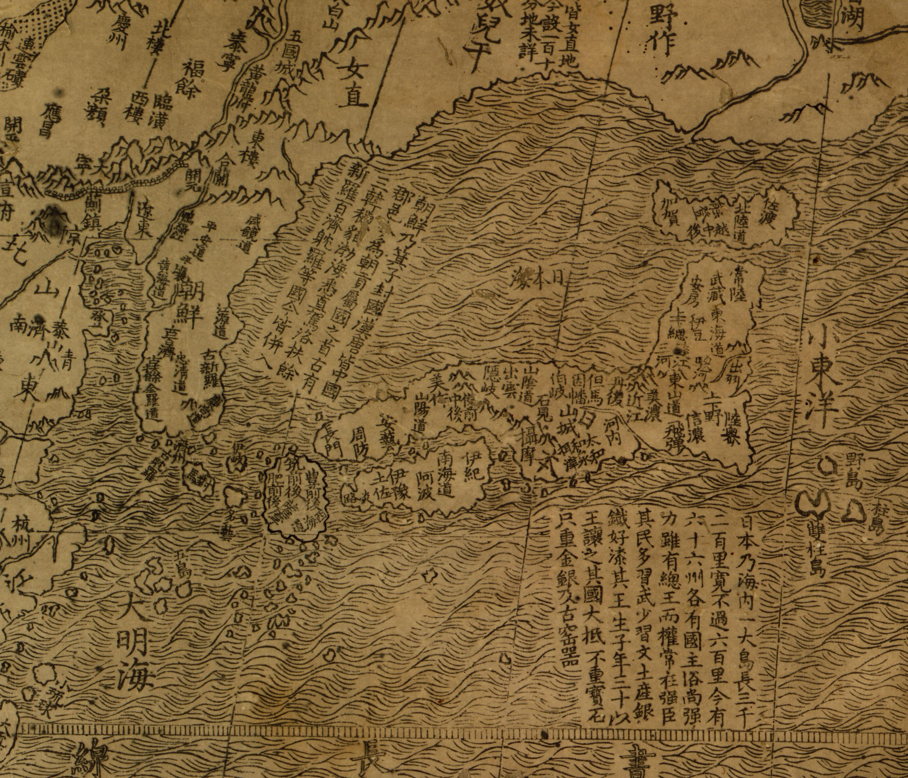 File:Kunyu Wanguo Quantu by Matteo Ricci Plate 1-3.jpg (22678 × 20538 pixels) : clipped (18501, 8001)-(22000, 11000) around Japan Hokkaido is incorrect (confused with Noto Peninsula and Sado Island)